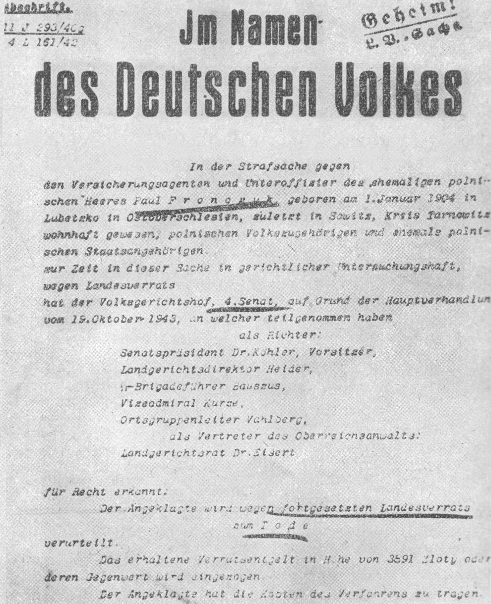 An example of nazi "justice" - death penalty for Polish citizen, officer of Polish Army and prisoner of war (POW) - Pawel Fronczyk, issued by German court (so called People`s Tribunal) in 1943 in Leipzig (Germany). Sentence issued by nazi court against international humanitarian law. It is said above (bold letters): "In the name of German Nation !"